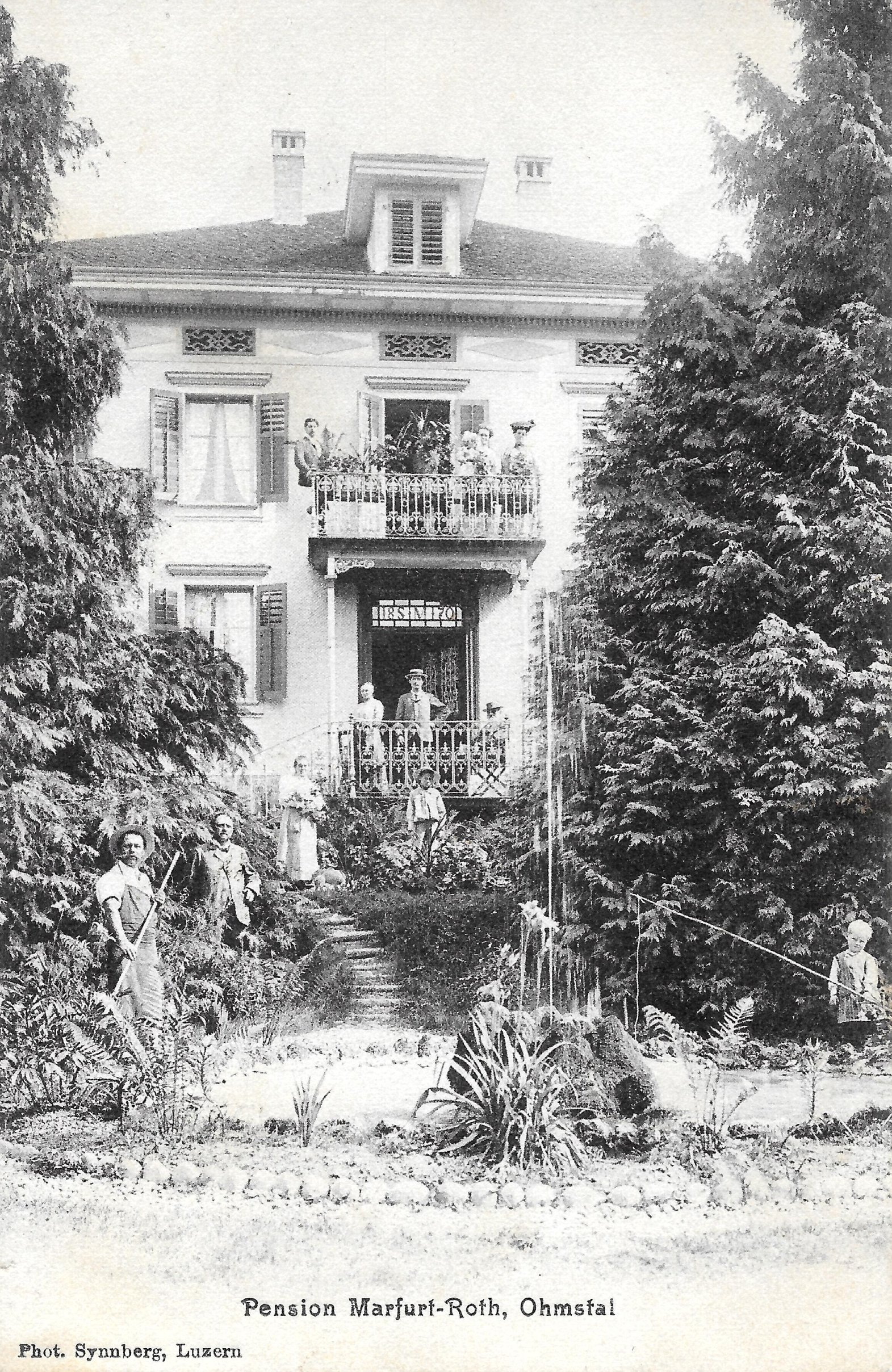 Postcard of "Pension Marfurt-Roth", also known as "Kurhaus" (spa hotel) in Ohmstal, Switzerland. This postcard must have been published in 1907, as it has a 1907 postage stamp on the address side and the hotel opened in that year, so it can be neither earlier nor later.